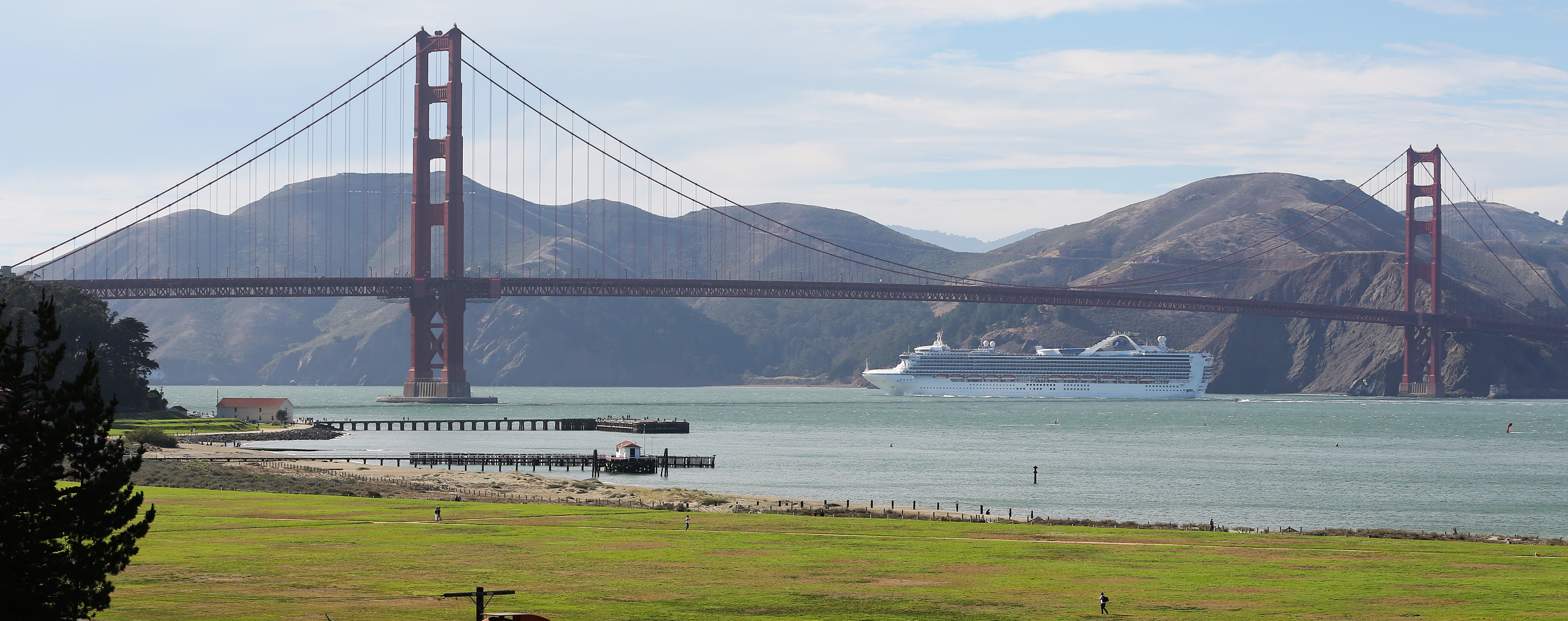 Cruise ship under the Golden Gate Bridge (TK2)